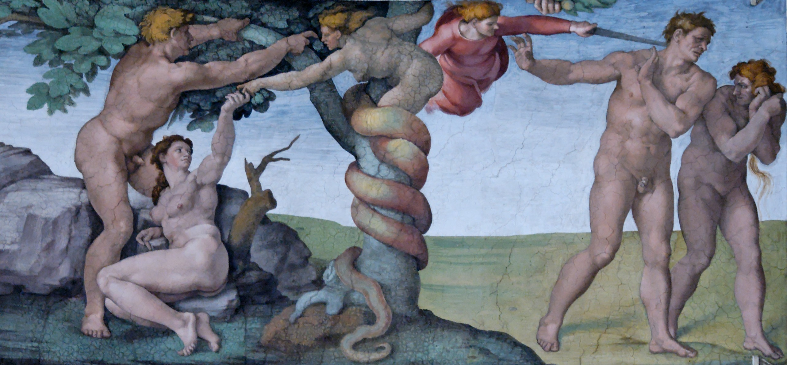 The Downfall of Adam and Eve and their Expulsion from the Garden of Eden. Part of the ceiling paintings in the Sistine Chapel by Michelangelo.